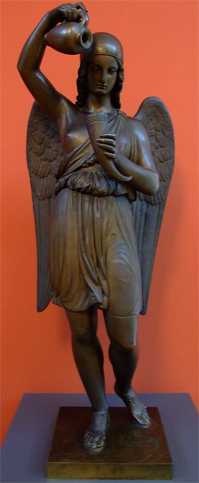 A photograph of "Valkyrie" (1834-1835) by H. W. Bissen (1798-1868), housed at the Ny Carlsberg Glyptotek, Copenhagen, Denmark.